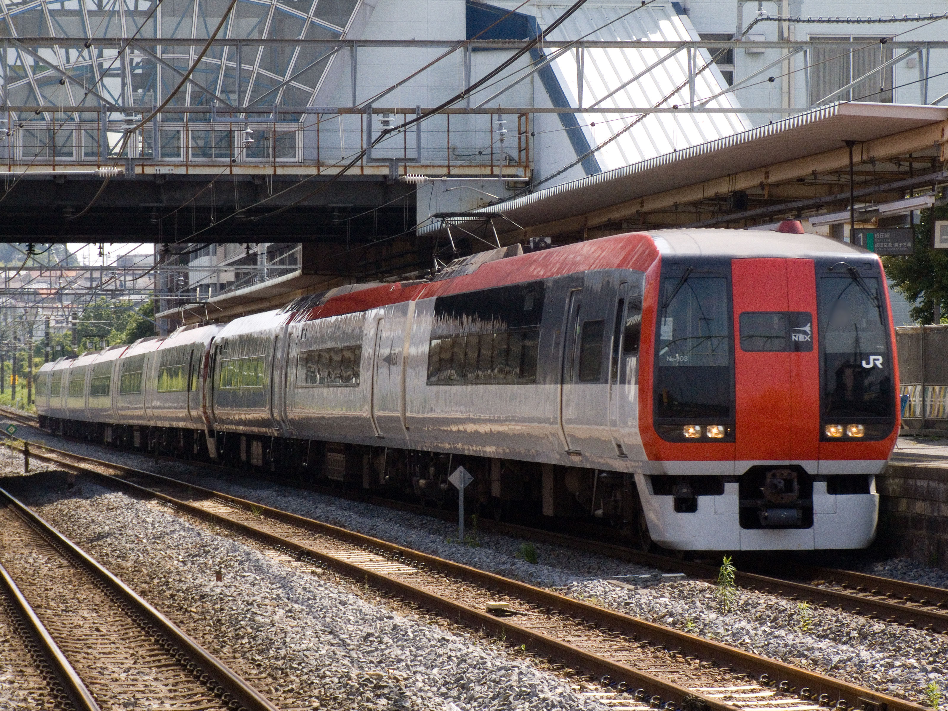 A JR East 253 series EMU at Shisui Station on a Narita Express service